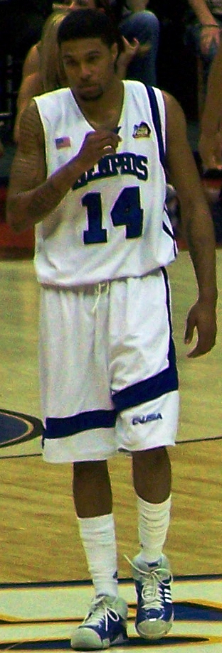 Chris Douglas-Roberts in the 2008 Final Four game against UCLA.